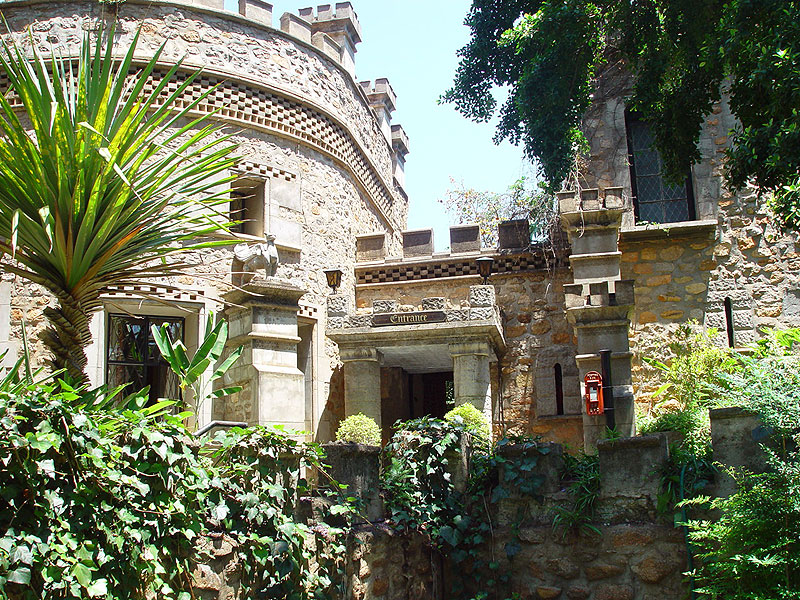 Hidden away in a woodland area of Hillside, Bulawayo stands Nesbitt Castle, the creation of either a madman or a genius! Built around 1905 by Theodore Holdengarde an early mayor of the city, this proud sentinel of mortar and hand-hewn rock has walls thicker than the span of a man's arms. Its beautifully manicured gardens and secluded hideaways are a haven for those seeking respite from the anxieties of the outside world; the only sounds to be heard are those of Mother Nature. This splendid example of bygone days of opulence and romance was restored in 1988 by the Nesbitt family. Just the right venue for fairytale weddings, romantic honeymooners or conferences. Enjoy your stay in one of the nine luxuriously appointed suites, with amenities that will satisfy even the most discerning of travelers.